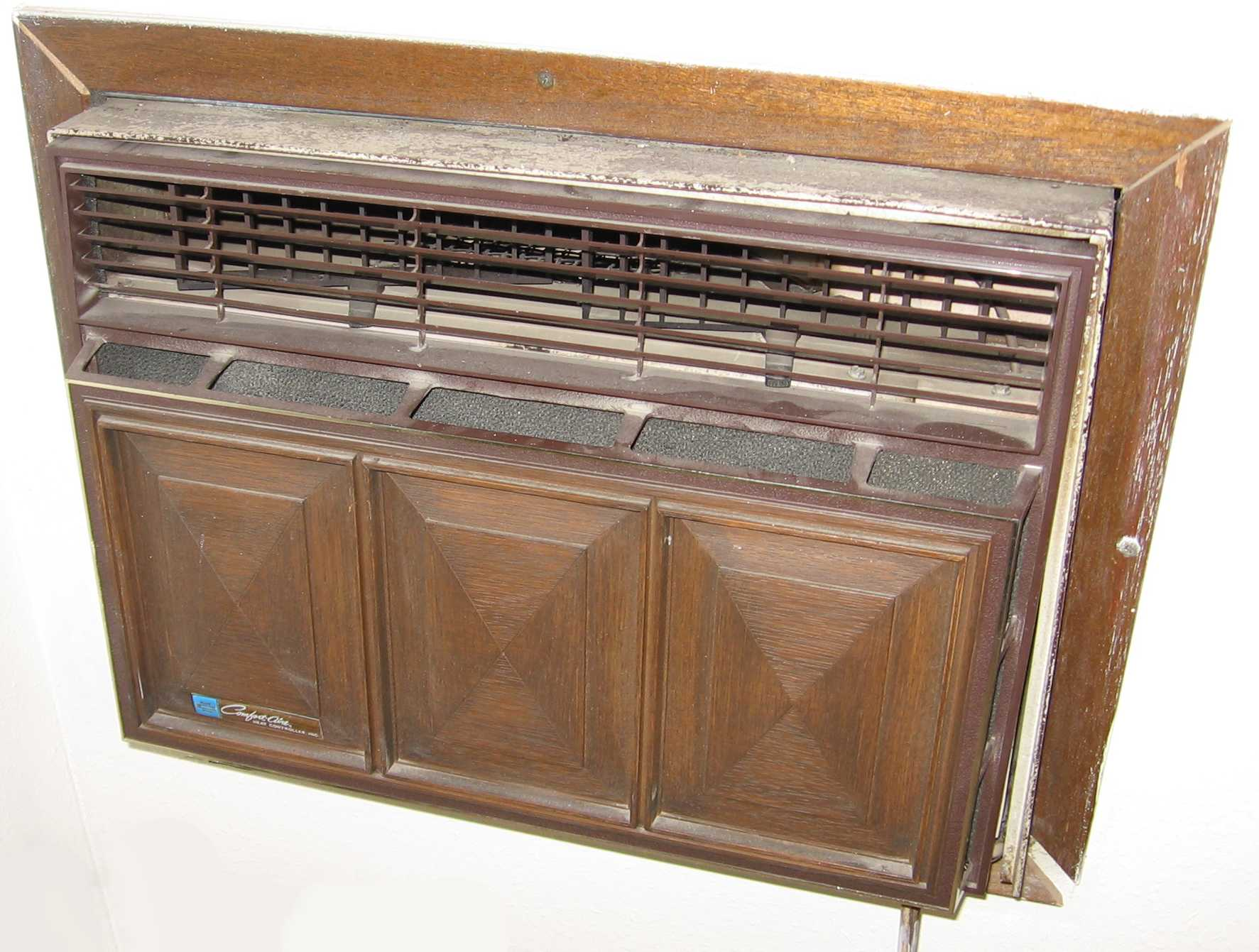 Photograph of the internal section of a typical single-room air conditioning unit.